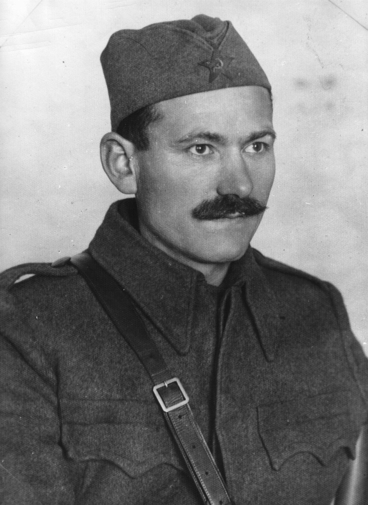 Radoje Dakić Brko (1912 — 1946)